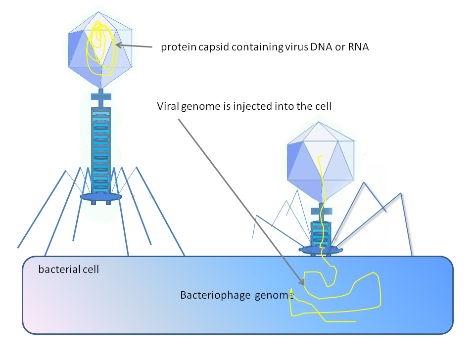 Diagram of how some bacteriophages infect cells: this is not drawn to scale, bacteriophages are about 100 x smaller than bacteria.